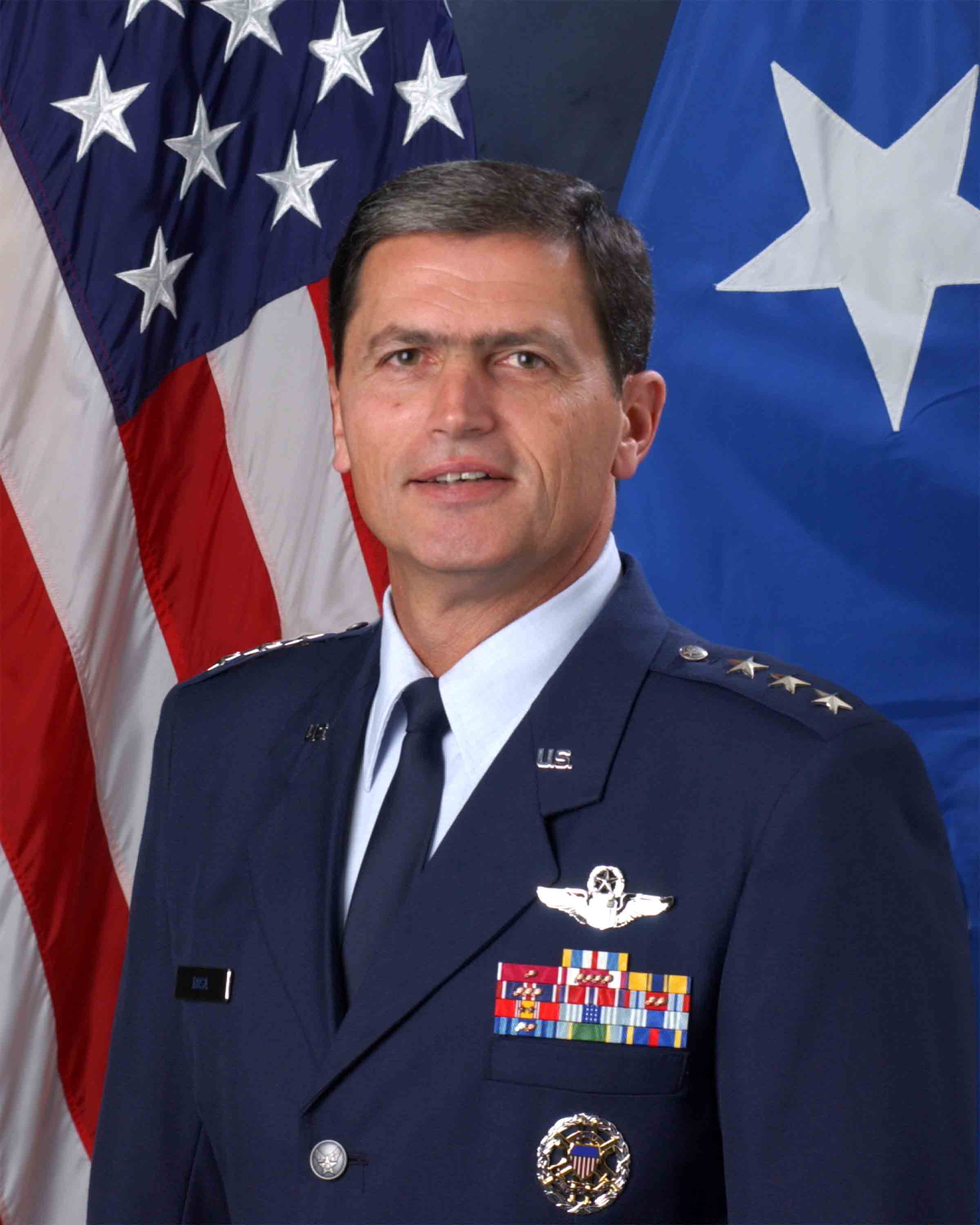 Lt. Gen John W. Rosa, USAF from af.mil